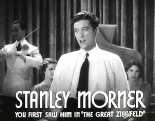 Cropped screenshot of Dennis Morgan from the trailer for the film Mama Steps Out. Note: Early in his career, Morgan was billed as "Stanley Morner", his birth name.